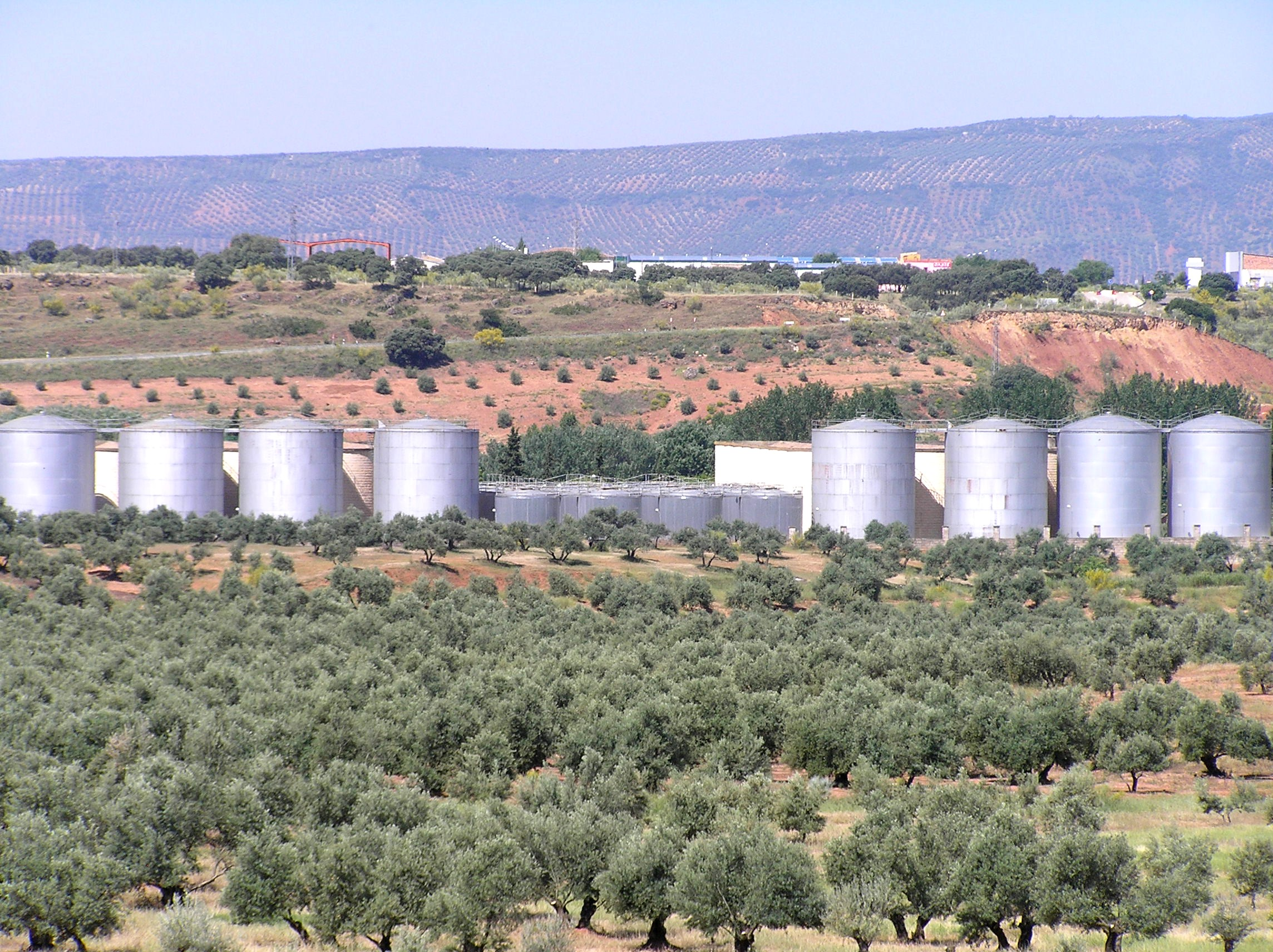 Vista posterior del Patrimonio Comunal Olivarero